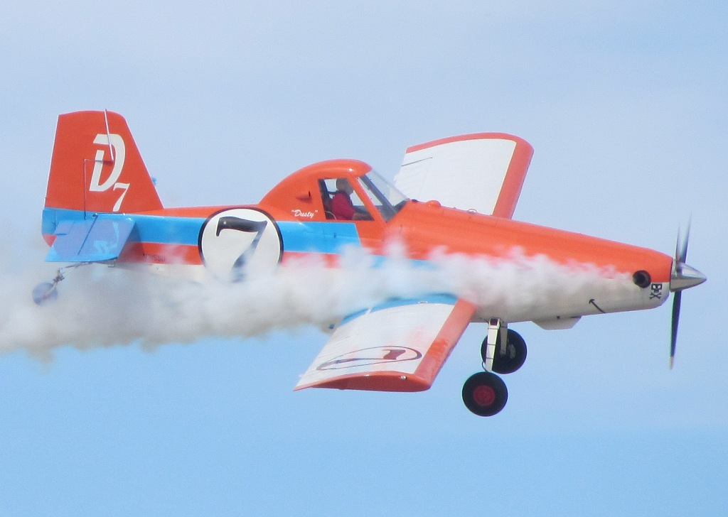 Air Tractor